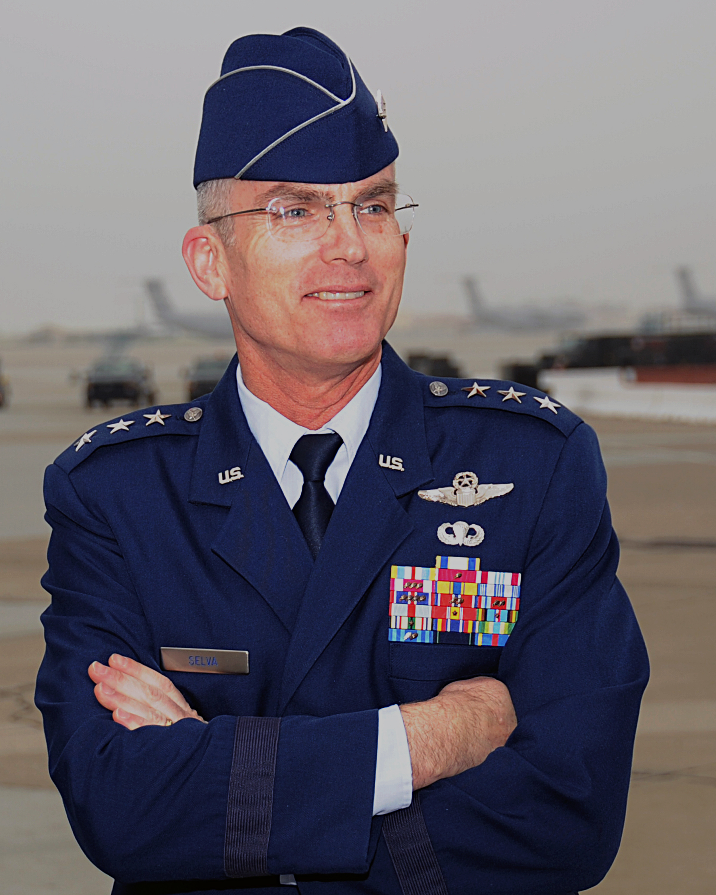 U.S. Air Force Lt. Gen. Paul J. Selva, assistant to the chairman of the Joint Chiefs of Staff, stands on the flight line at Travis Air Force Base, Calif., Jan. 11, 2010, during a refueling stop. Selva is traveling with Secretary of State Hillary Rodham Clinton en route to the South Pacific region.